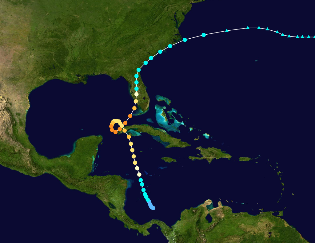 1910 Atlantic hurricane 5 track.png track. Uses the color scheme from the Saffir-Simpson Hurricane Scale.